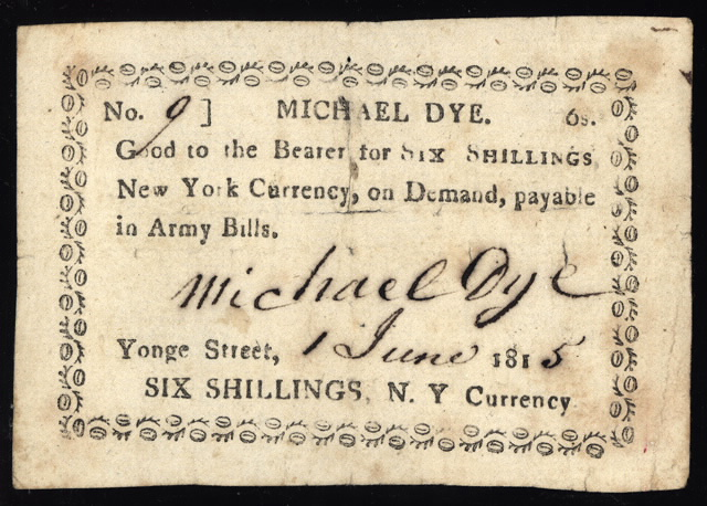 Bitcoin’s tribulations this week prompted us to look through our Digital Archive for past revolutions in currency. This is a specimen of the paper money of Upper Canada in 1815. This is the ninth six-shilling note in New York currency that Michael Dye, an innkeeper on Yonge Street here in Toronto, issued (on June 1st, 1815). It is payable in Army Bills. Wonder what the exchange rate on that is these days? Creator: Dye, Michael Date: 1815 Identifier: 1815. Currency Format: Ephemera Rights: Public domain Courtesy: Toronto Public Library. More information: (view details and larger image)